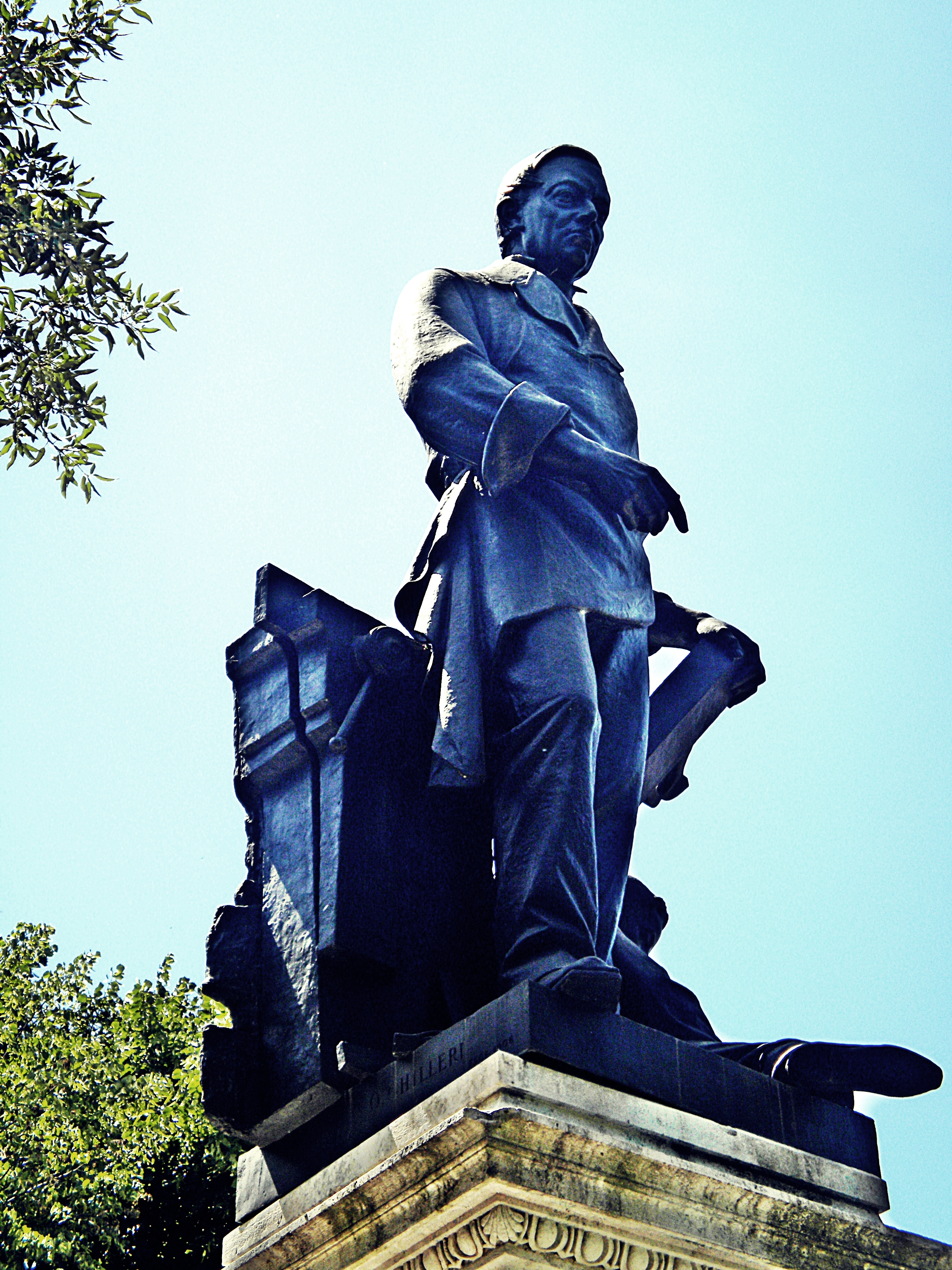 magnolfi